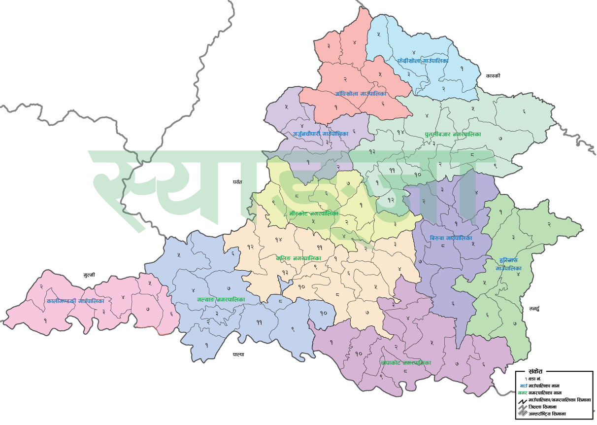 Syangja ward level